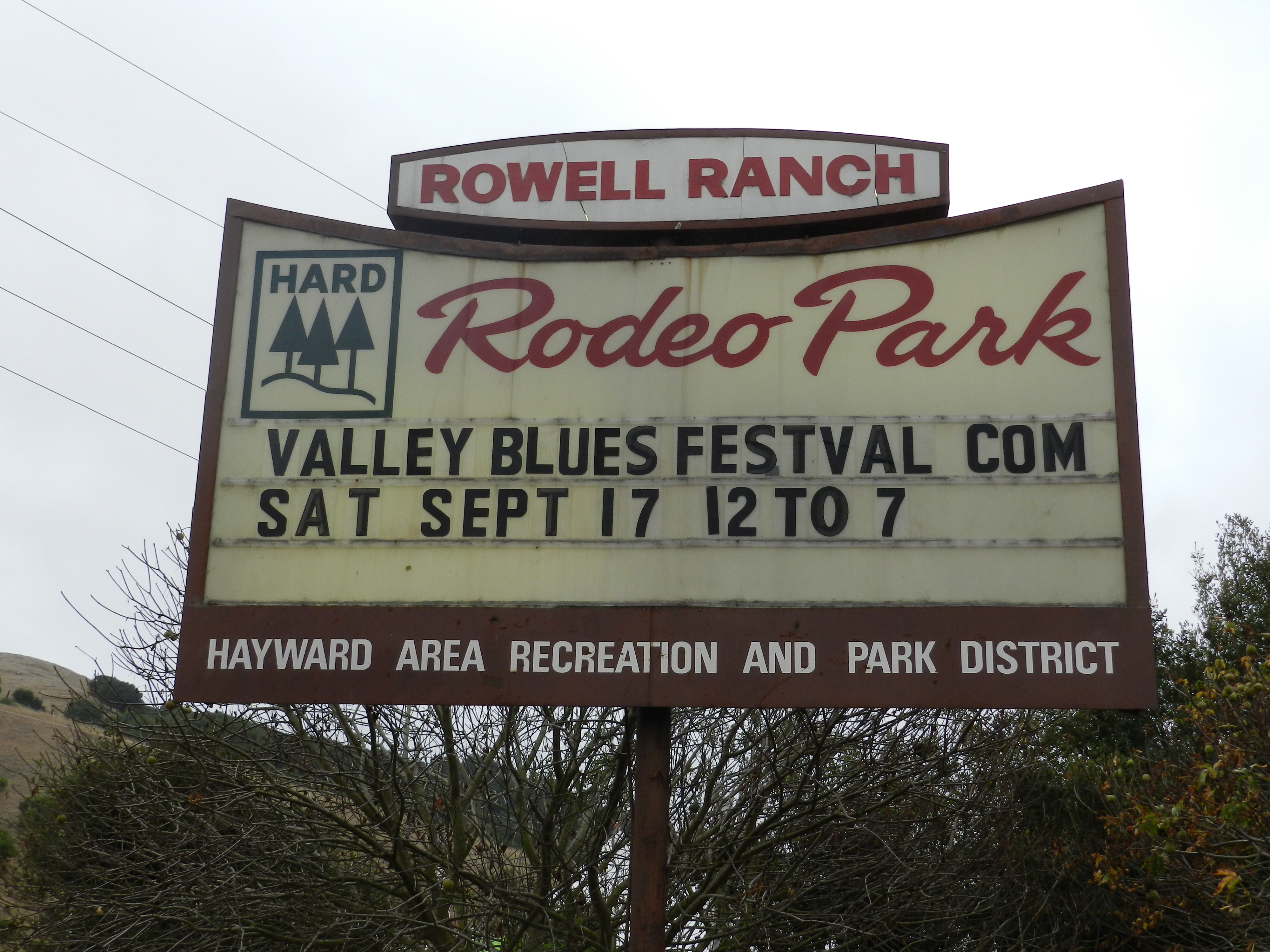 signage at Rowell Rodeo Park, near Castro Valley, california, a division of Hayward Area Recreation and Parks District